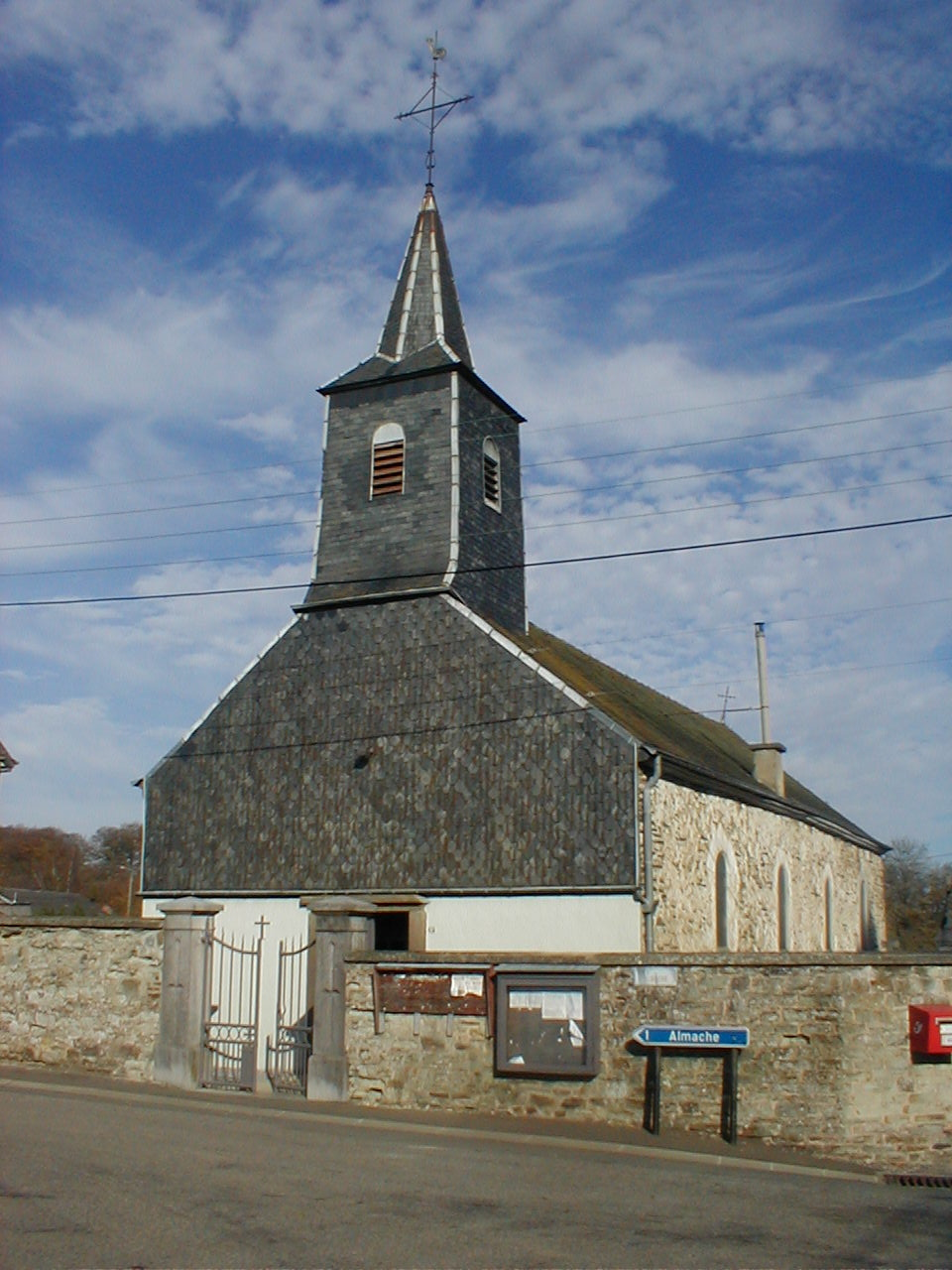 Chapelle Saint-Hubert in Plainevaux, a village in Nollevaux Walon: Eglijhe di Nolevå